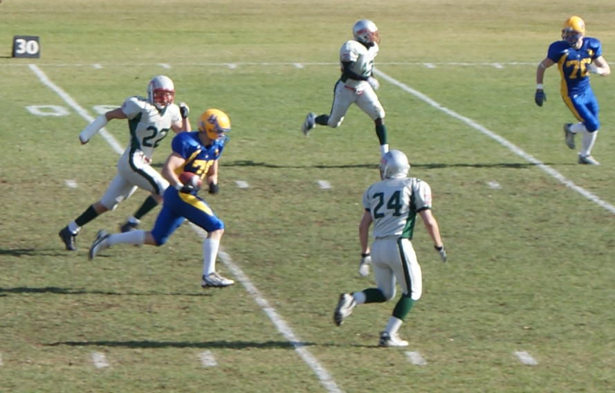 Pass reception post pattern up the center. Saskatoon Hilltops cheerleaders, October 10, 2008 first playoff game vs Winnipeg Rifles in the Prairie Football Conference, a Canadian Junior Football League teams ending 35 to 28 in favour of the Hilltops. Game played in the Gordie Howe Bowl Saskatoon Hilltoppers: 70 - Shockey, Caleb slotback 78 - Dueck, Shayne slotback Rifles: 22 Justin Clayton Linebacker /Safety 24 42